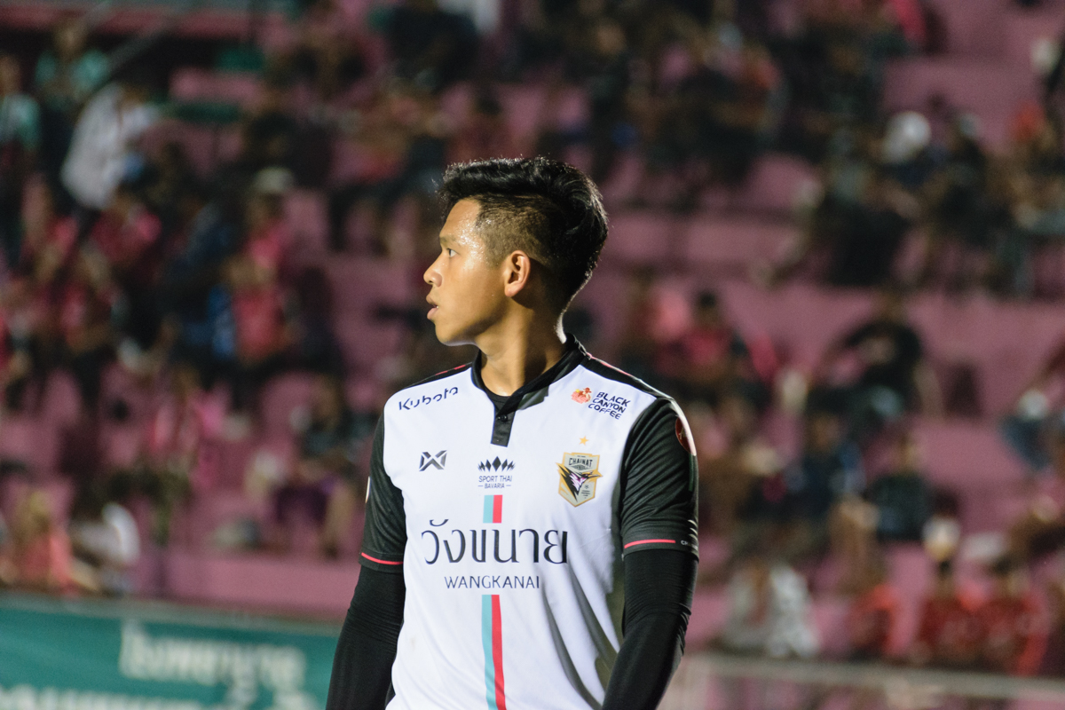 Anusith Termmee